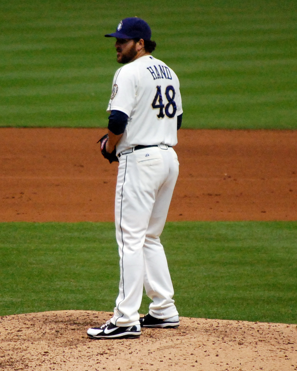 Donovan Hand playing for the Milwaukee Brewers at Miller Park in Milwaukee, Wisconsin in 2013.